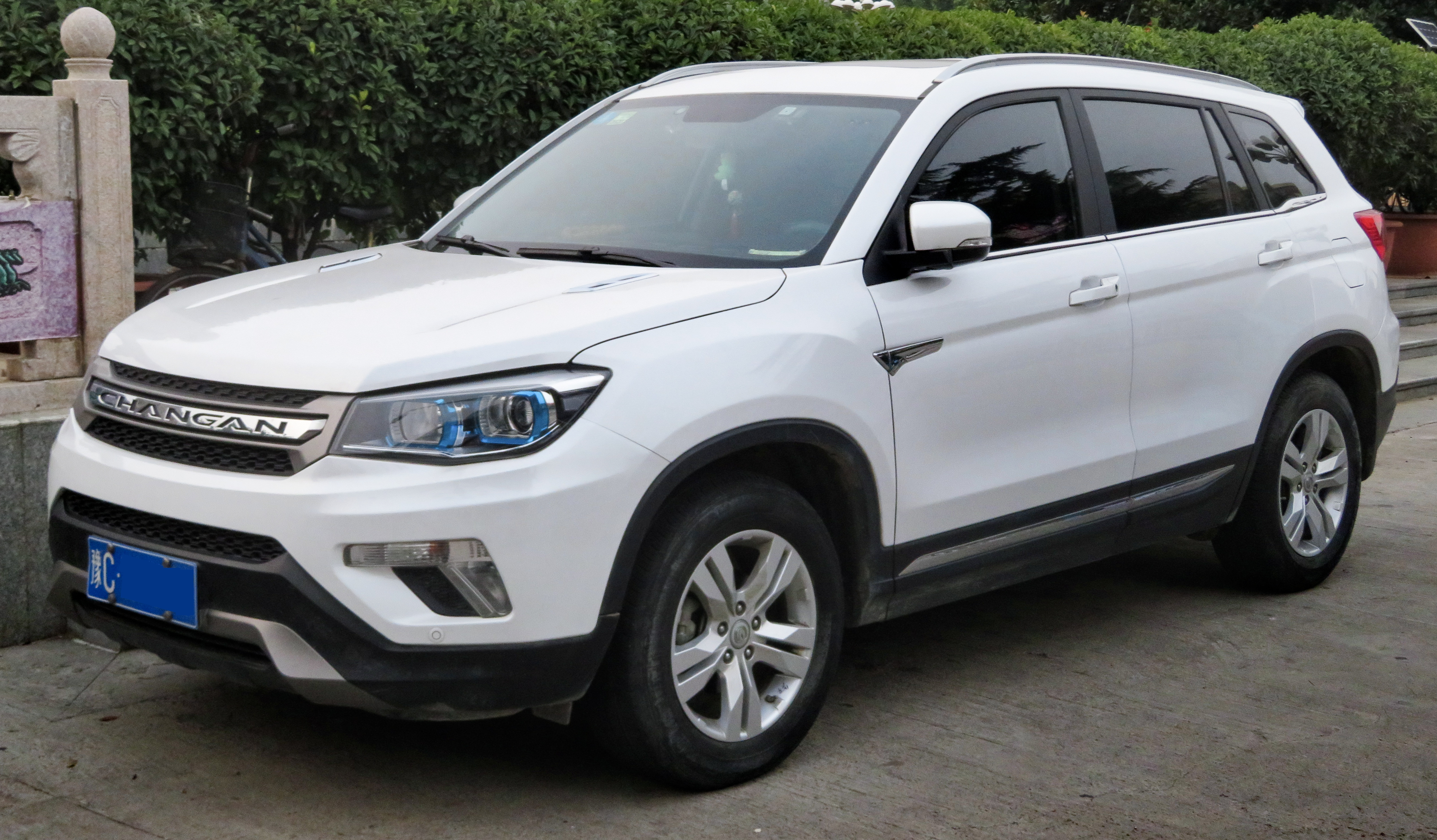 A 2017 Chang'an CS75 photographed in Xigong District, Luoyang, Henan province, China